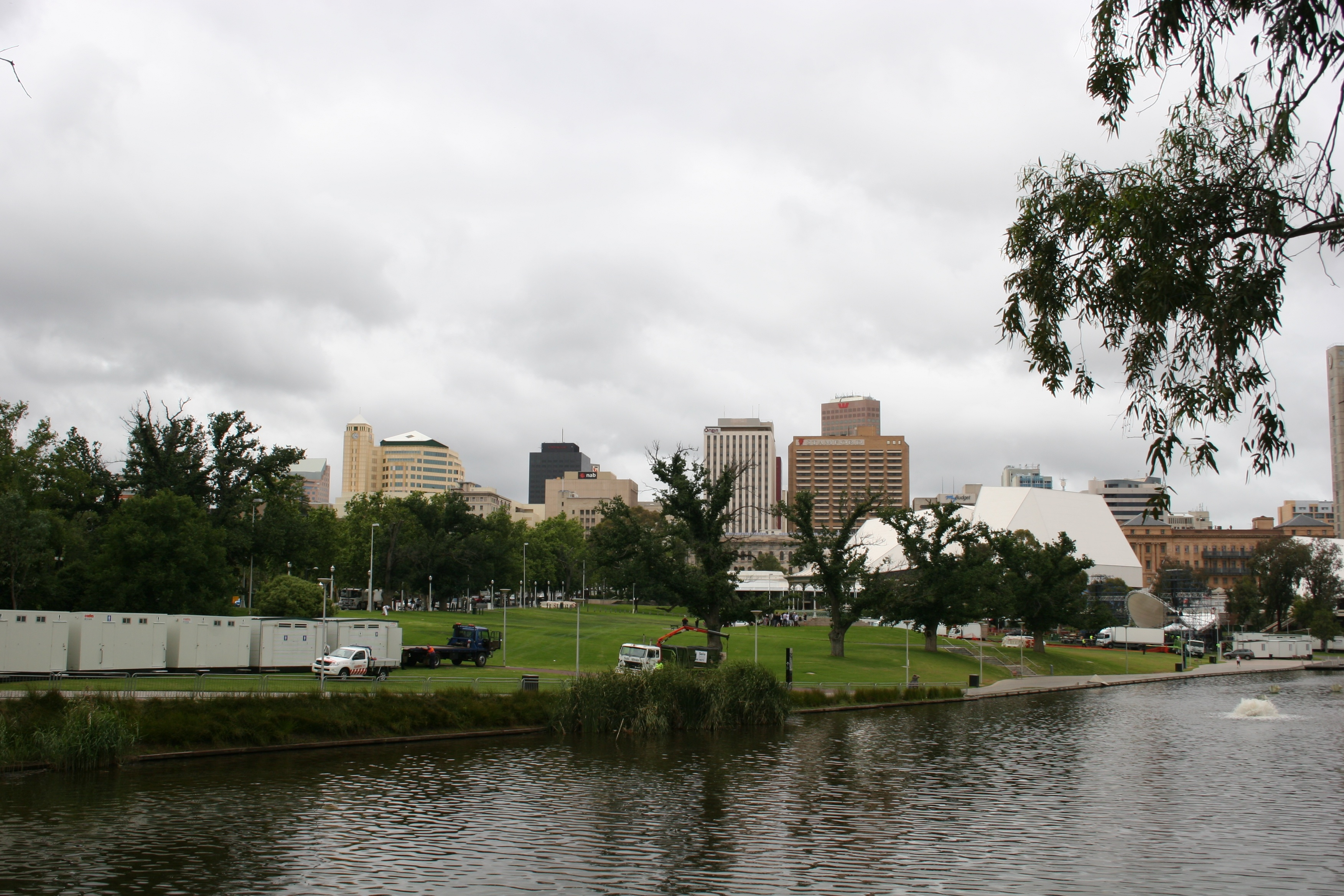 View of the River Torrens and Elder Park with the Adelaide city centre skyline in the background.